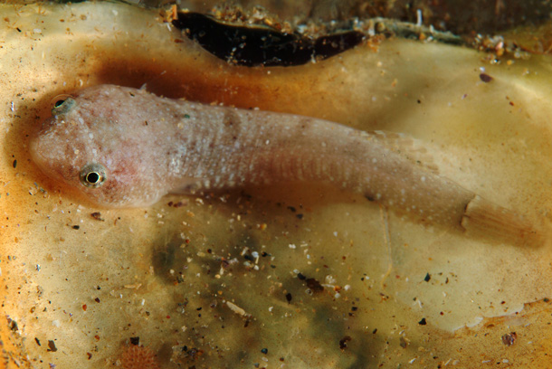 Diplecogaster bimaculata photographed near Giglio Island (Tuscany, Italy). Depth 30 m. Photo by Stefano Guerrieri